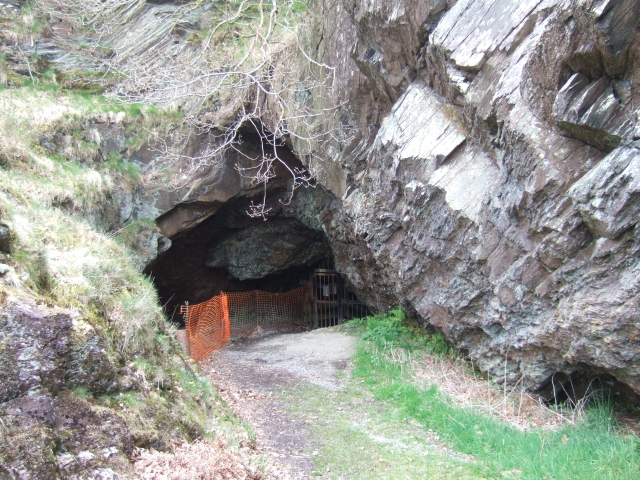 Entrance to Dolaucothi Gold Mine